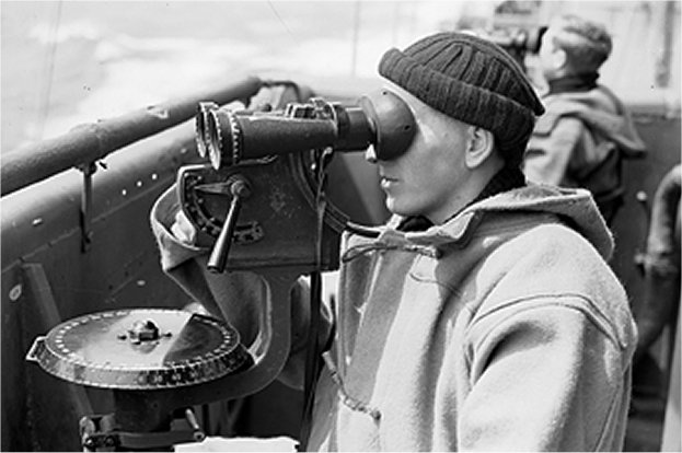 On board HMS SUFFOLK whilst on patrol, here watching through a pair of binoculars is Able Seaman Alfred R Newall, a hostilities only sailor from Euston House, London. He was the first man to sight the BISMARCK as she loomed out of the mist with the cruiser PRINCE EUGEN.